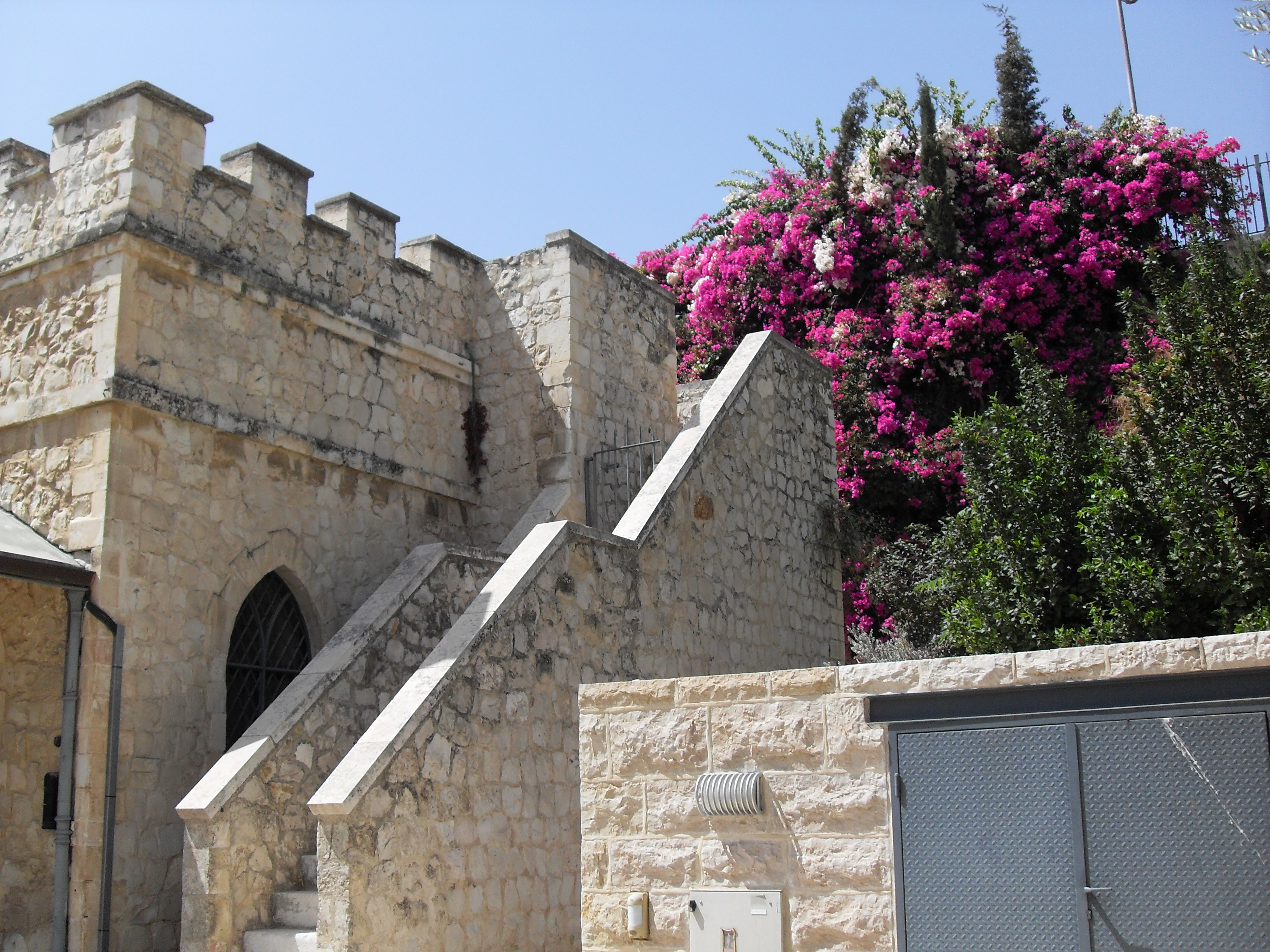 West Jerusalem, Bougainvillea in Mishkenot Sha'ananim